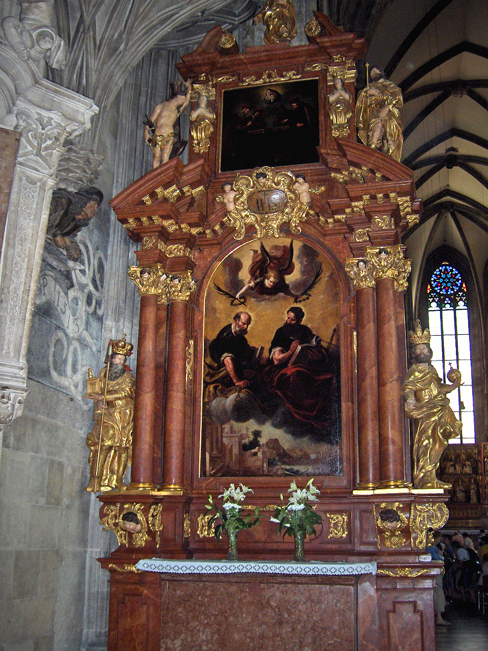 Side altar (next to Pilgram's portrait) in the Stephansdom in Vienna, Austria